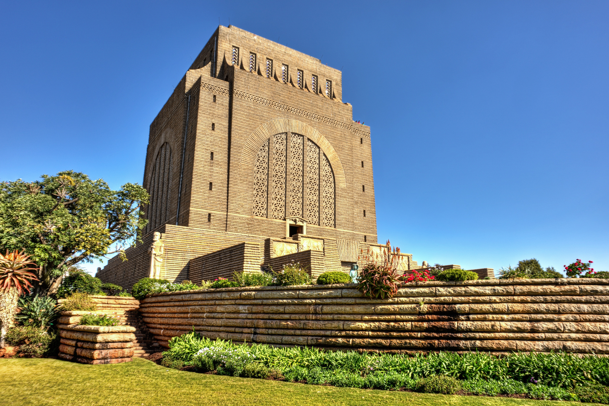 This media shows a South African Protected Site with SAHRA file reference 9/2/258/0097.